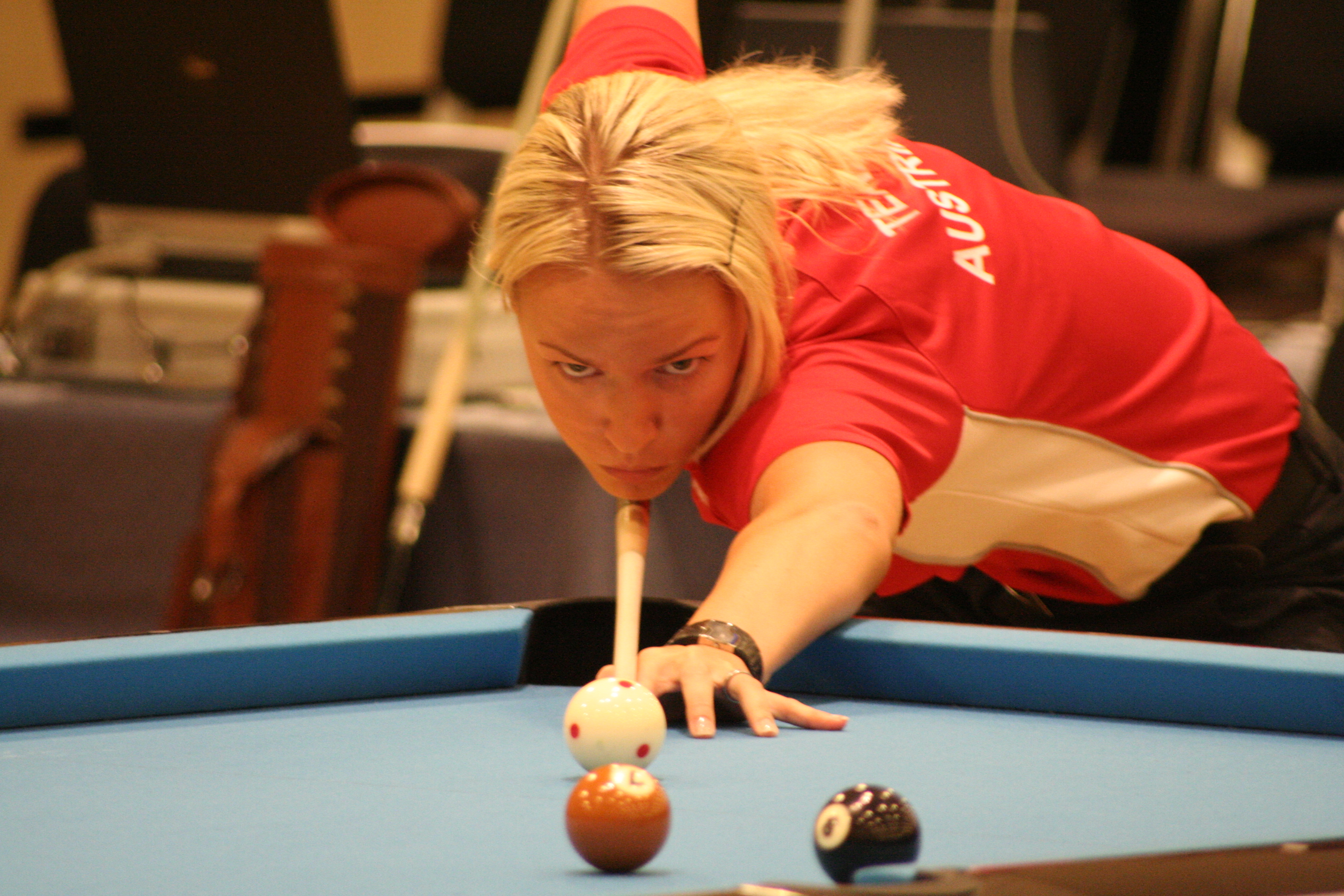 Austrian female pool player Jasmin Ouschan at the European Pool Championship 2008 in Willingen, Germany.